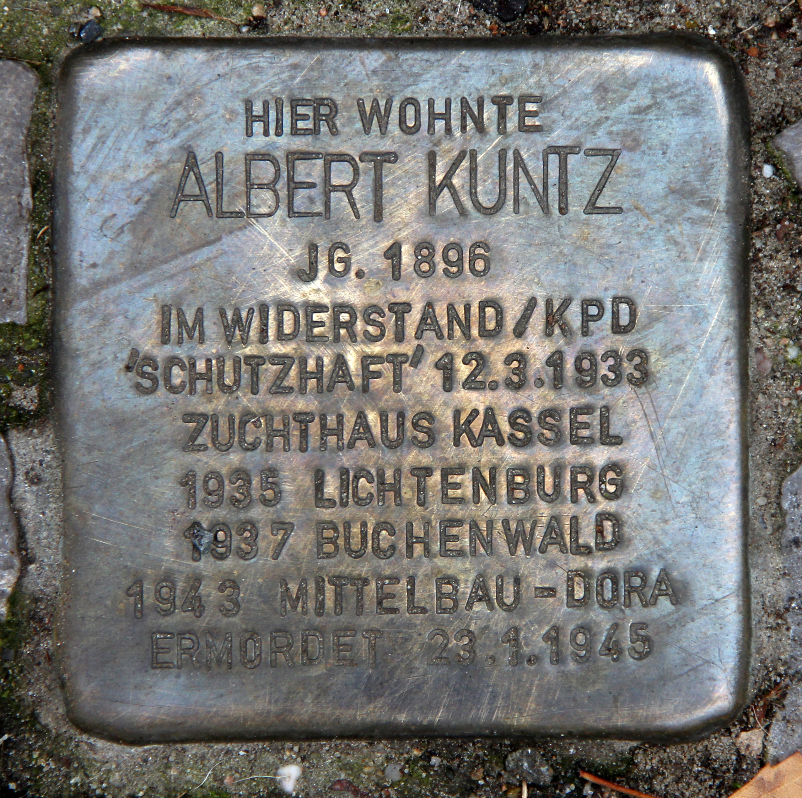 "Stolperstein" (stumbling block), Albert Kuntz, Afrikanische Straße 140, Berlin-Wedding, Germany